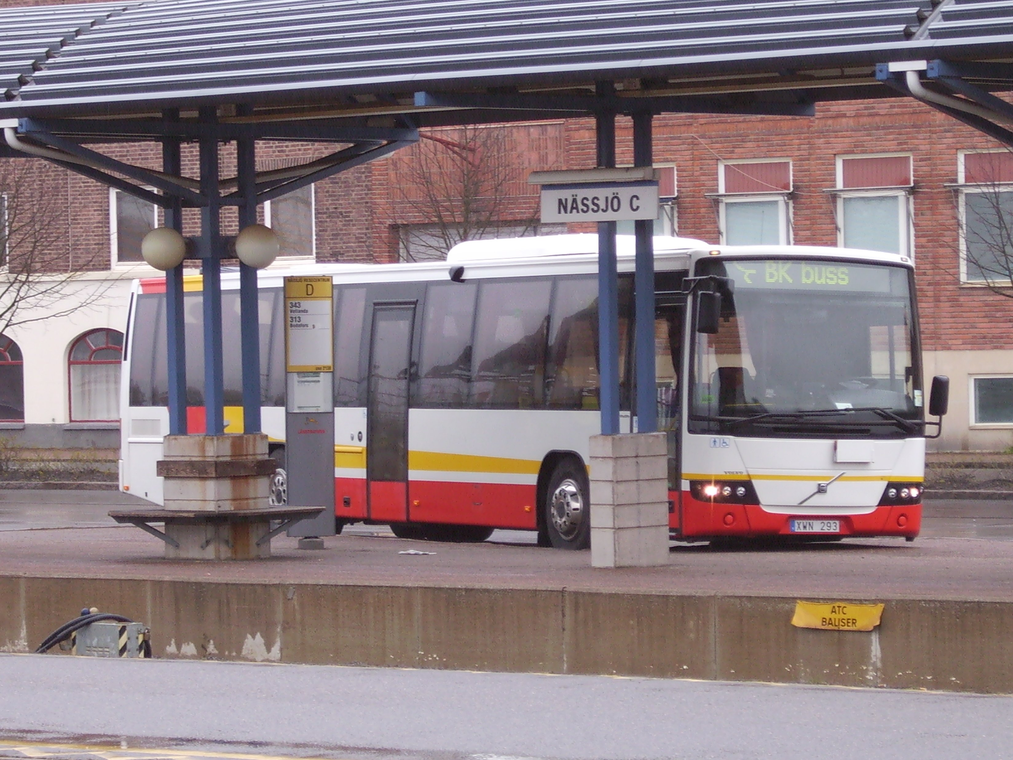 Photo by Harri Blomberg.